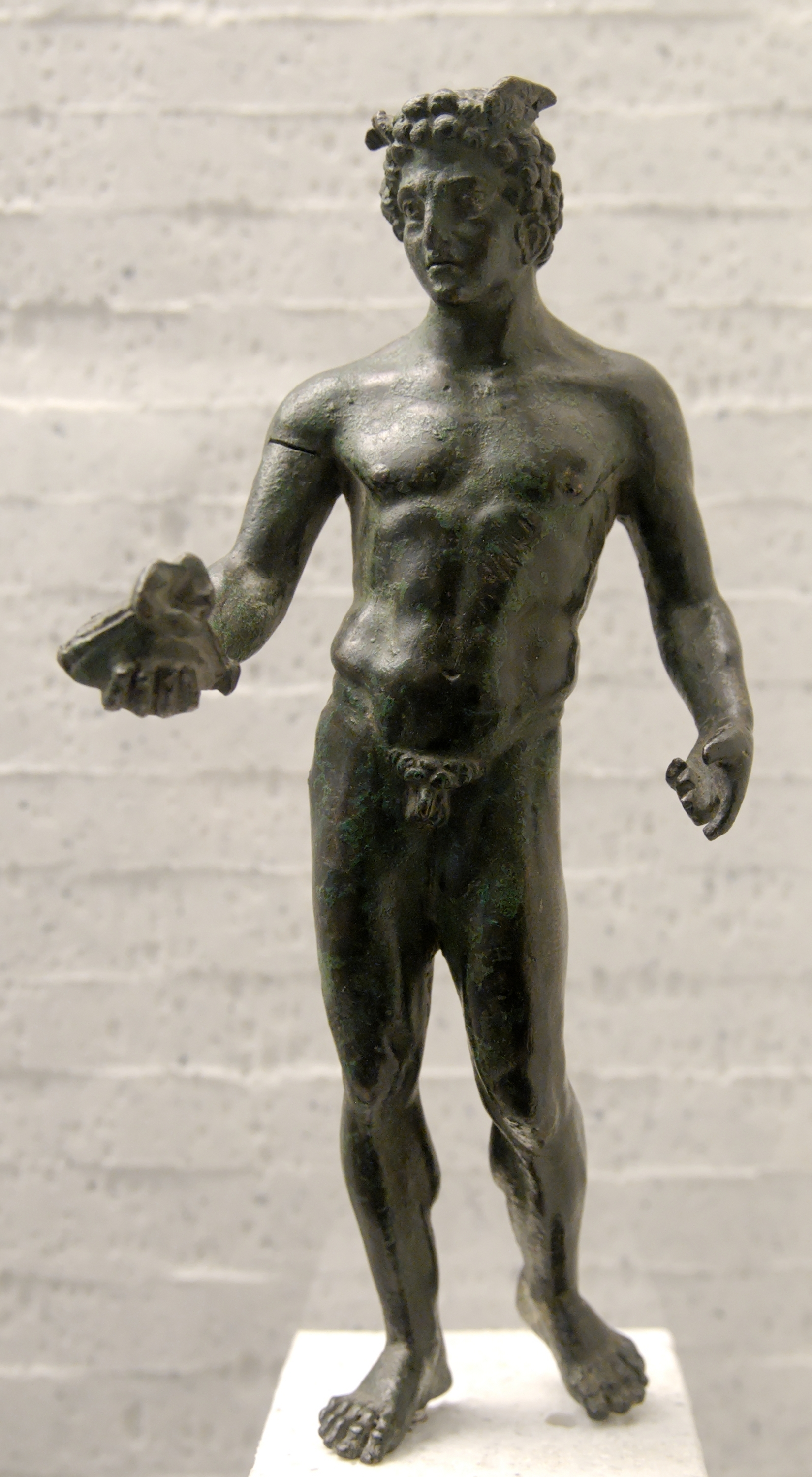 Mercury holding the caduceus (now lost) in his left hand and a money purse in his right hand. Bronze figurine, 1st–2nd century AD.